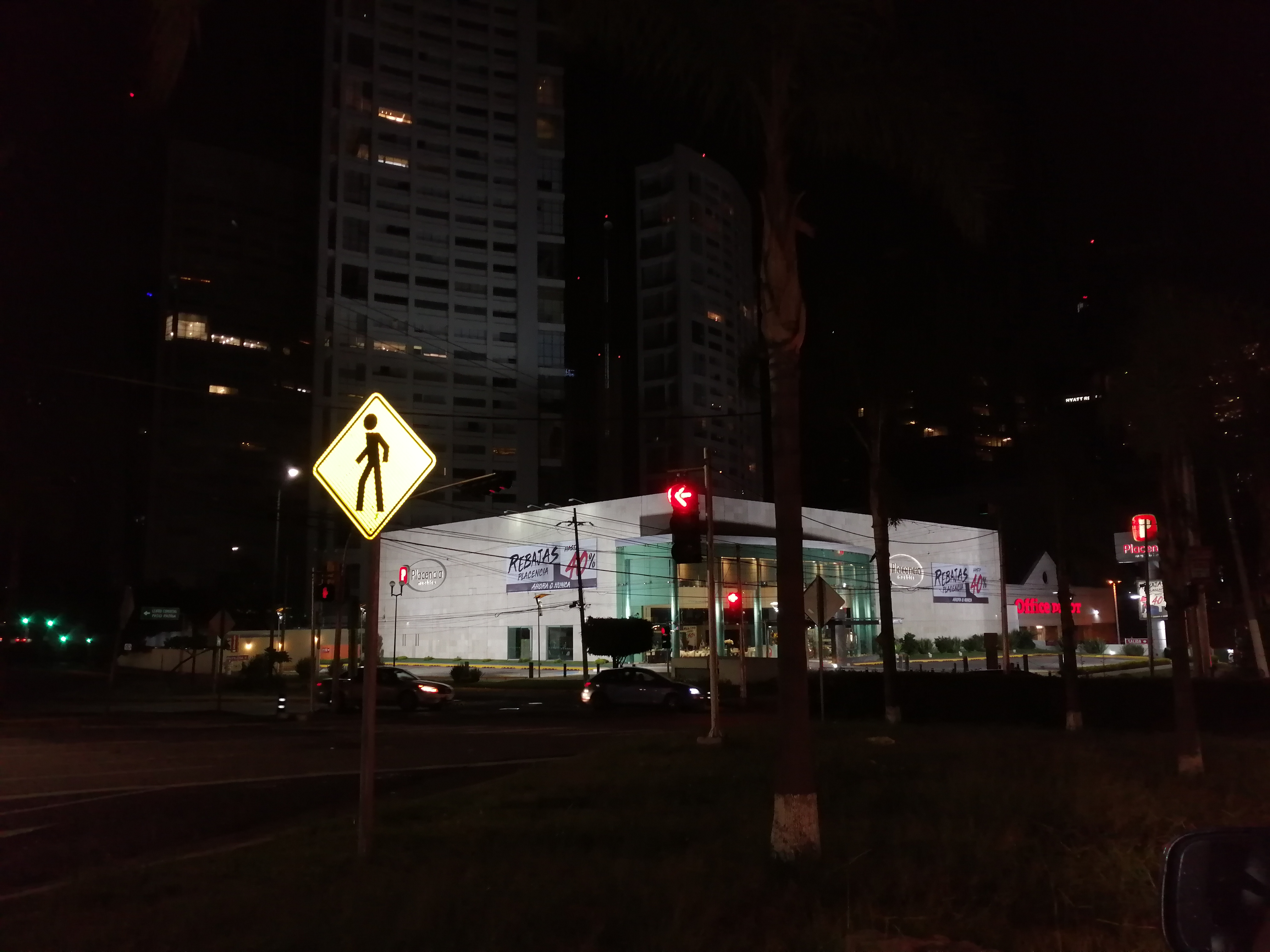 Placencia furniture